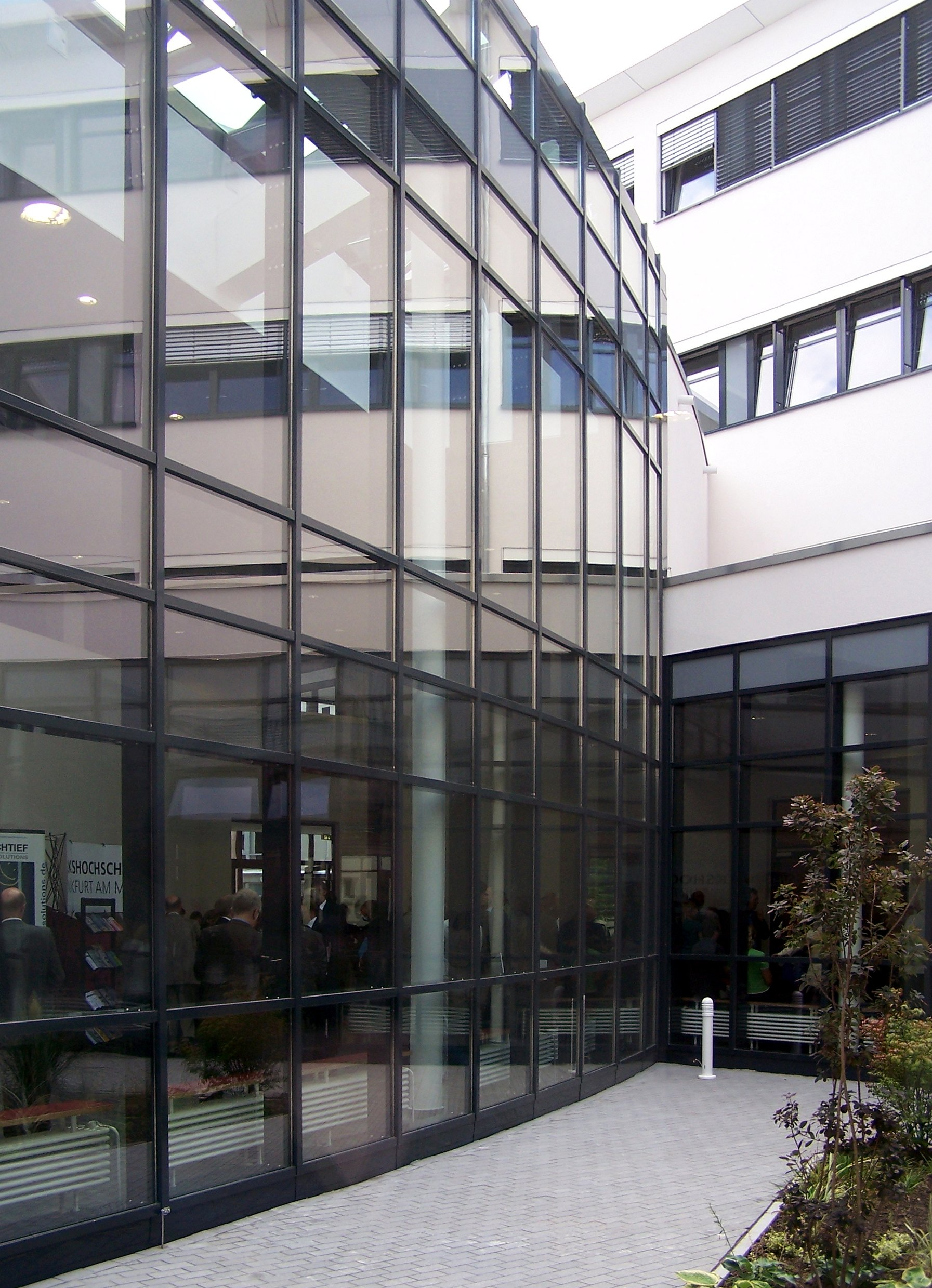 Atrium of the new Bikuz